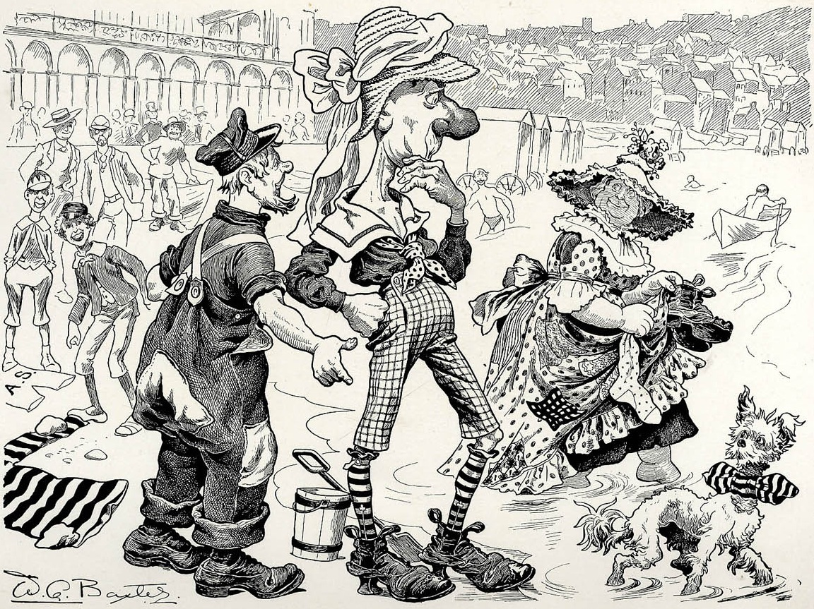 Reproduced by Joseph Pennell in Pen Drawing and Pen Draftsmen (1897)